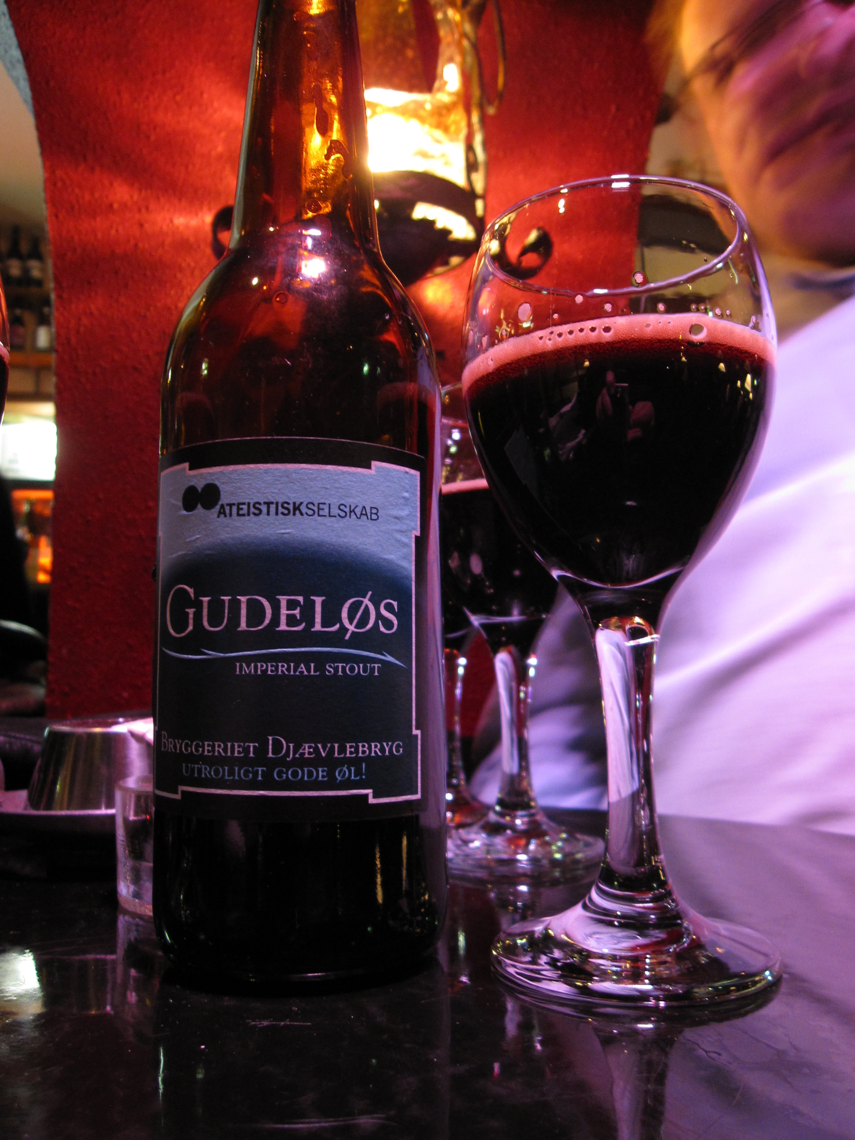 Gudeløs (Godless), a beer from Djævlebryg brewery, Denmark